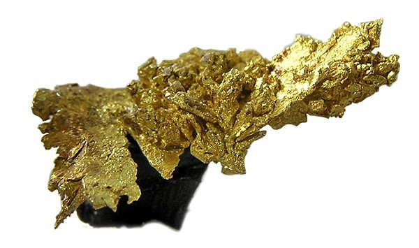 Gold Locality: Mother Lode, Amador County, California, USA (Locality at ) Sharply crystallized gold specimen from the Northern Cal motherlode 2.0 x 1.8 x 0.4cm